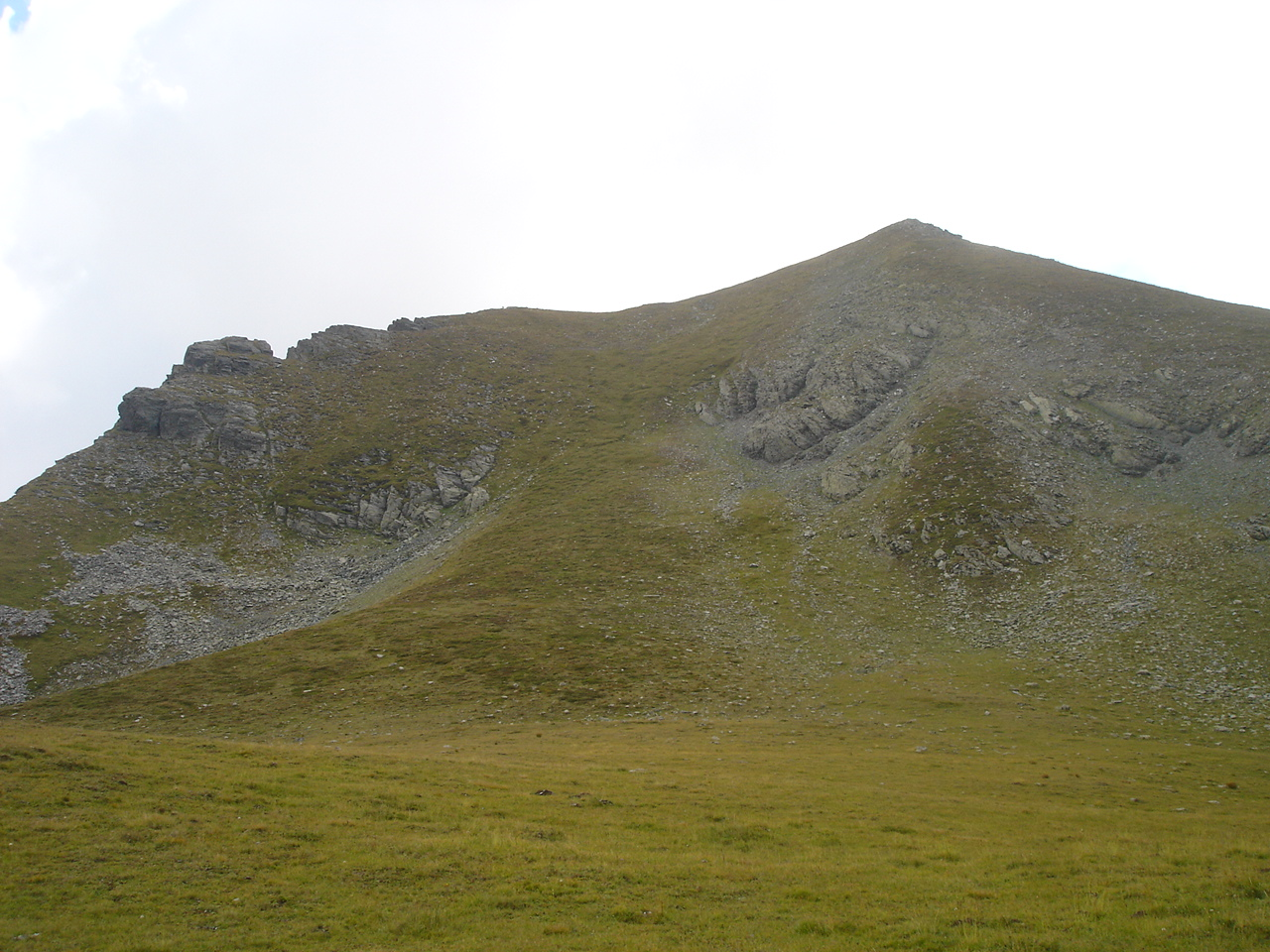 mountain peak Rudoka on Šar Mountain, Macedonia